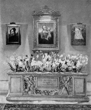 1917: 'The Raphael Room at Lynnewood Hall.' The Widener's idea of filling a sarcophagus with a bright array of spring flowers is inspired!